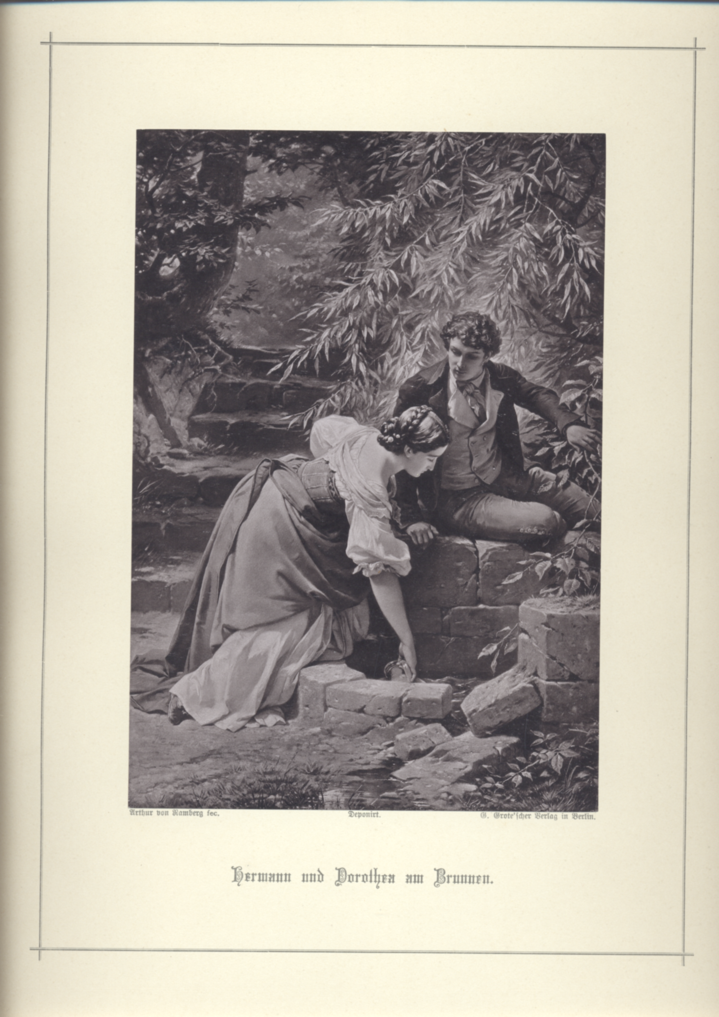 This is a scan of the historical document